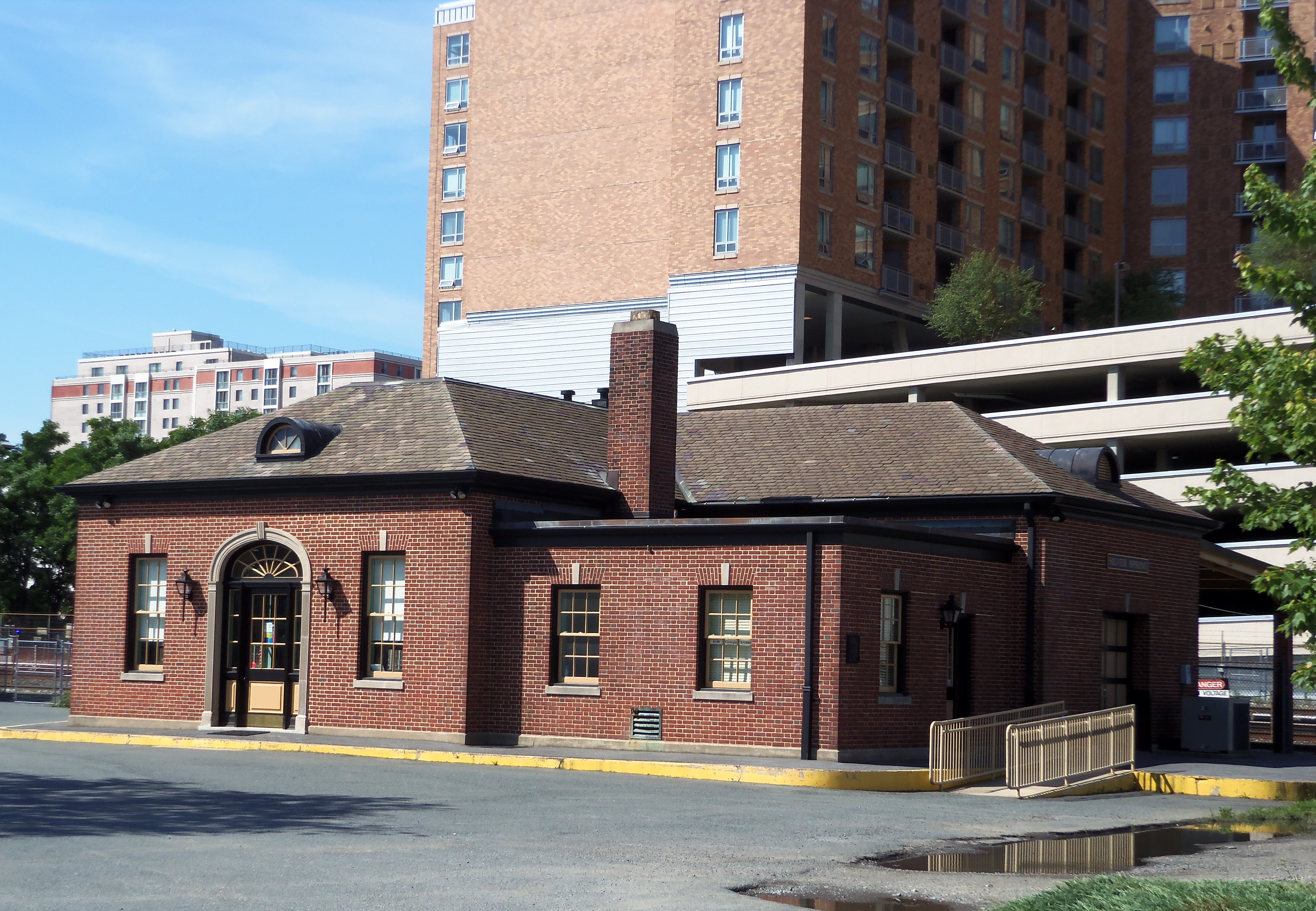 The former B&O Station in Silver Spring, Maryland. It is listed on the National Register of Historic Places.